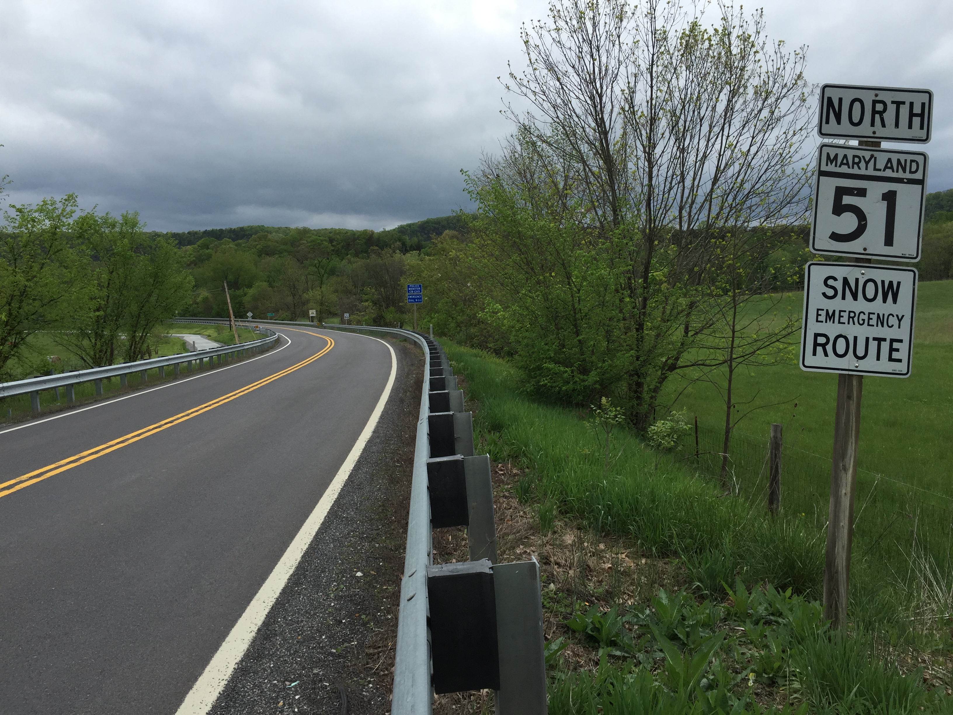 View north along Maryland State Route 51 (Oldtown Road) just north of the Paw Paw Bridge in Allegany County, Maryland